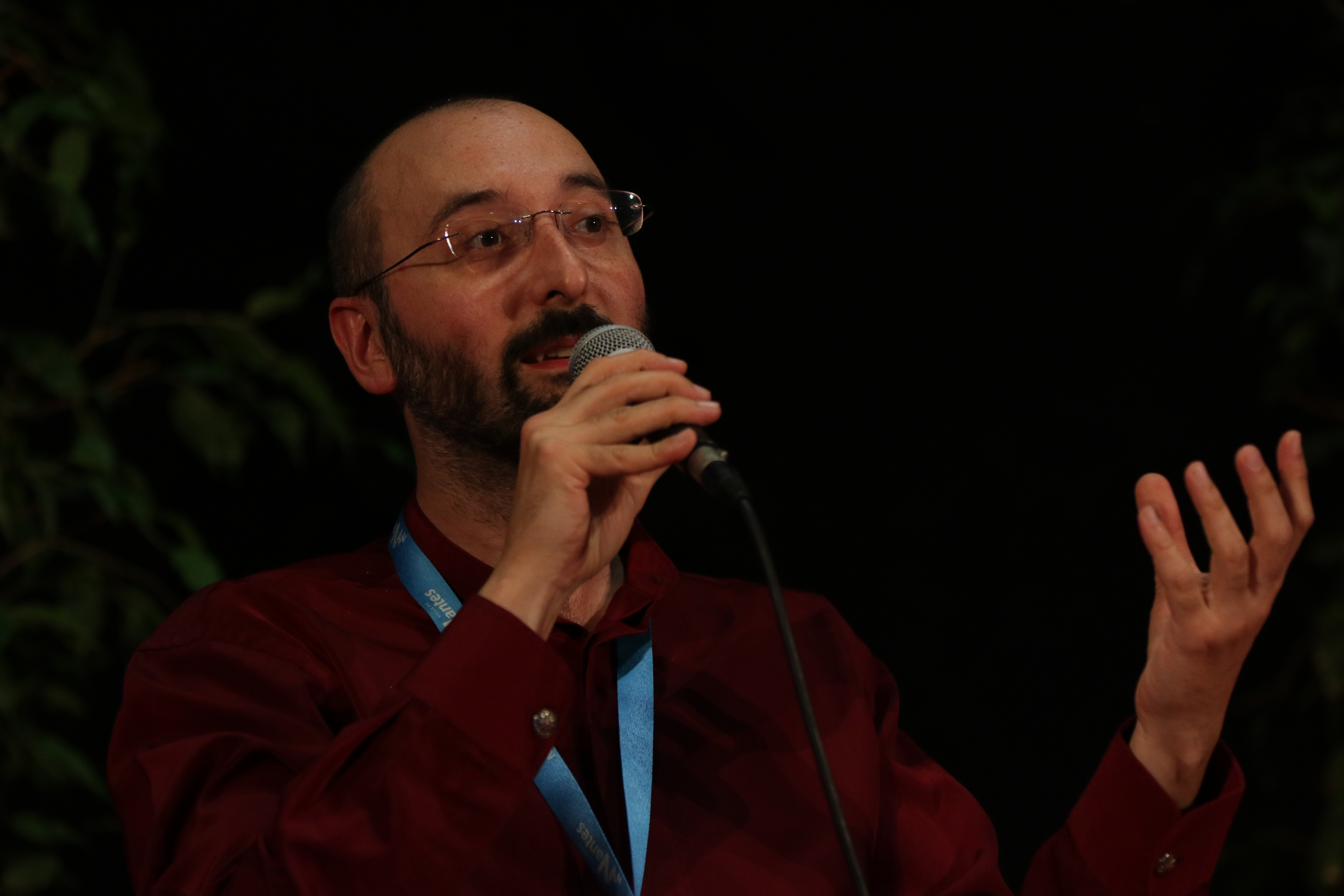 photograph taken at the 2015 edition of the "Utopiales" of Nantes.